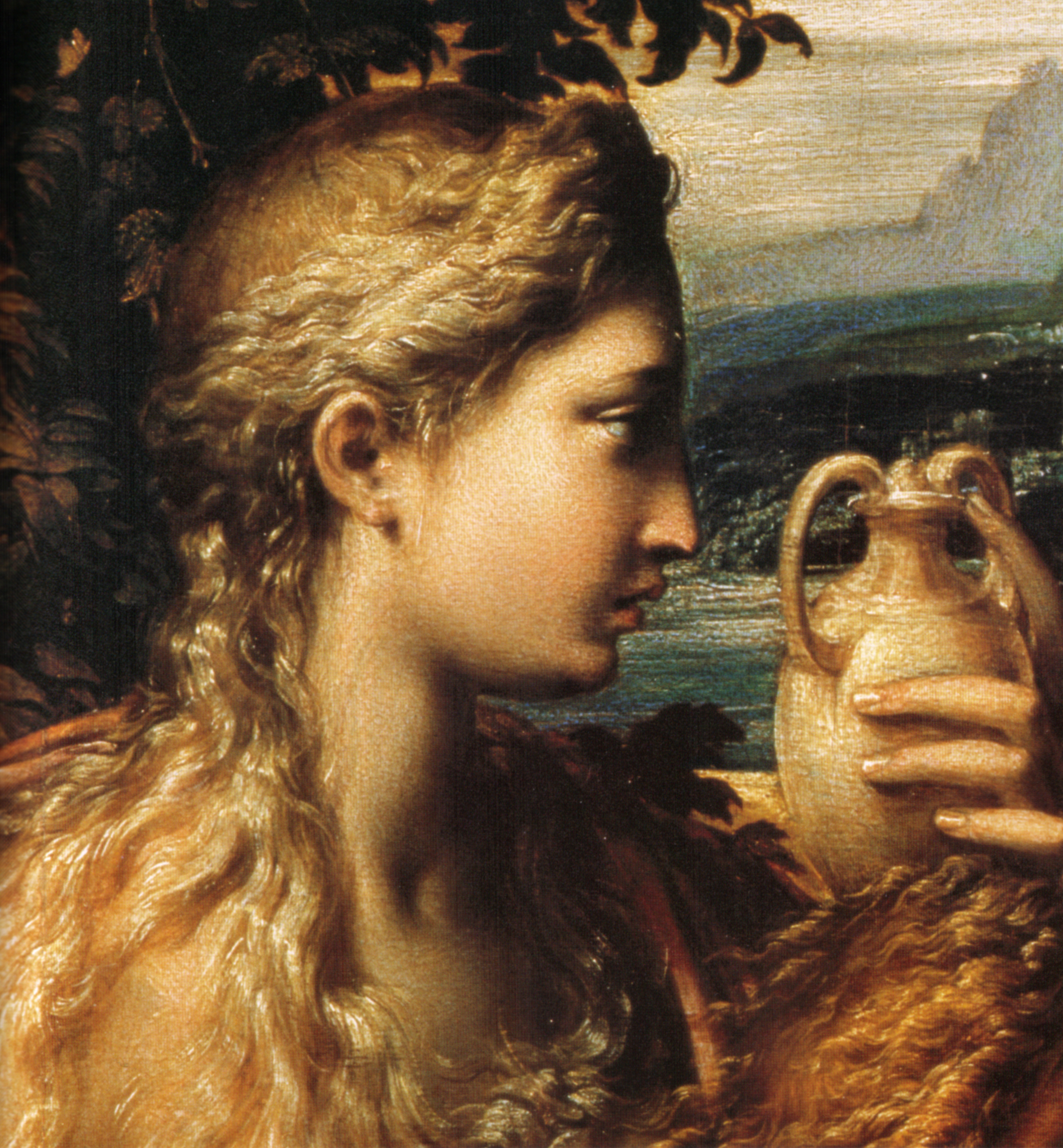 Detail